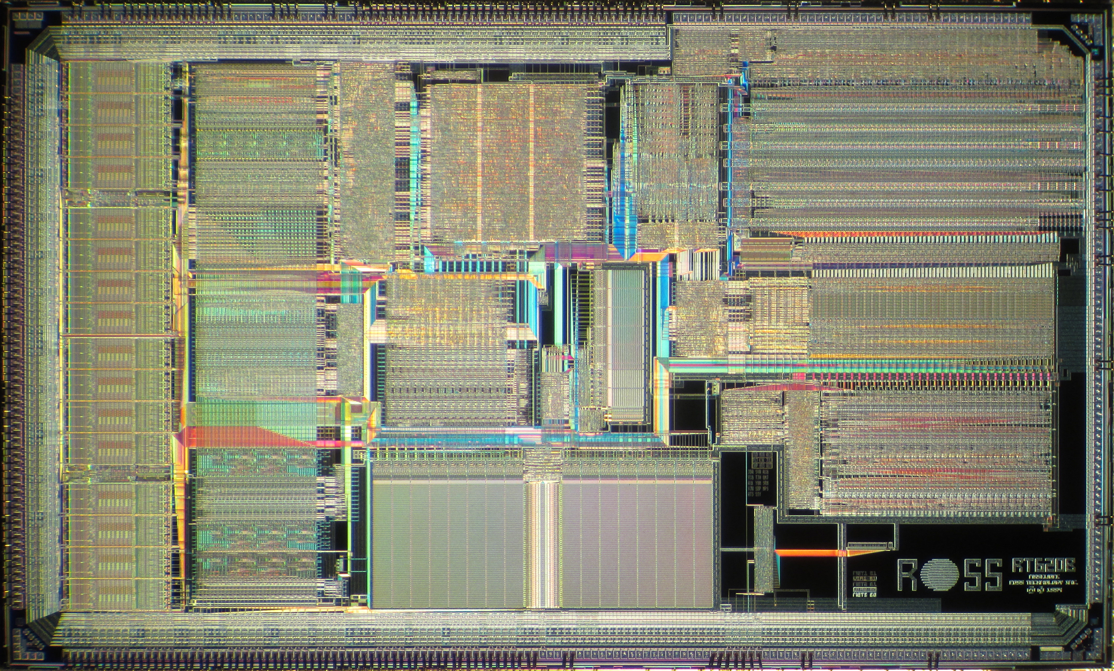 Die shot of Ross hyperSPARC RT620B microprocessor inside MCM.